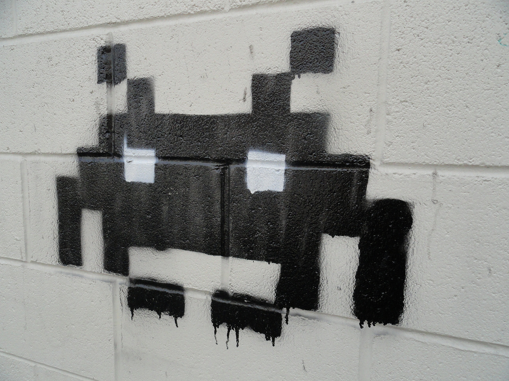 Sprayed the Space Invader.